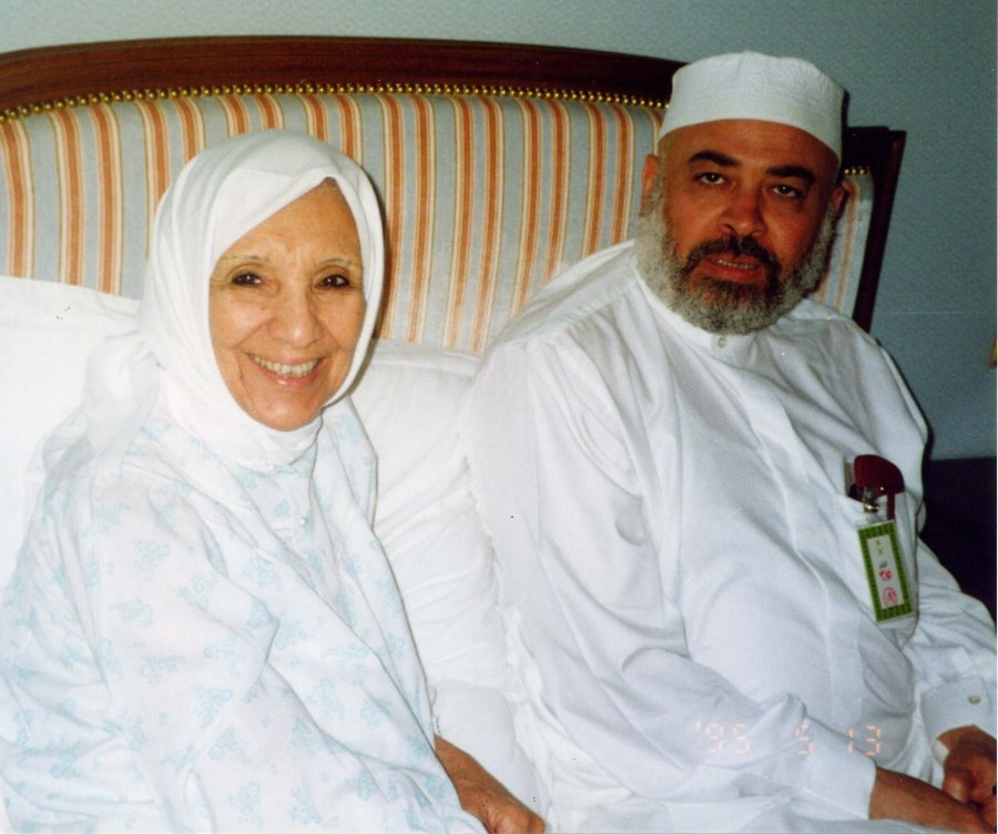 Queen of Libya Fatima El-Sennousi and LCU Chairman Mohamed Ben-Ghalbon Cairo 1995